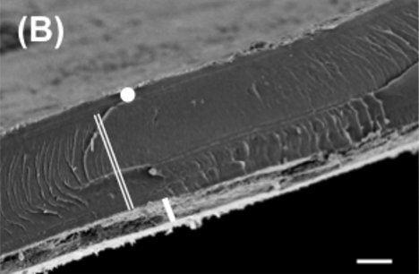 Photo of scanning Electron Microscopy of the shell micro-scale structure of OL-ecophenotype Notodiscus hookeri. Full white circle is outer periostracum. Double white line is an organic layer. Thick white line is the innermost mineralised layer. Scale bar is 10 µm.